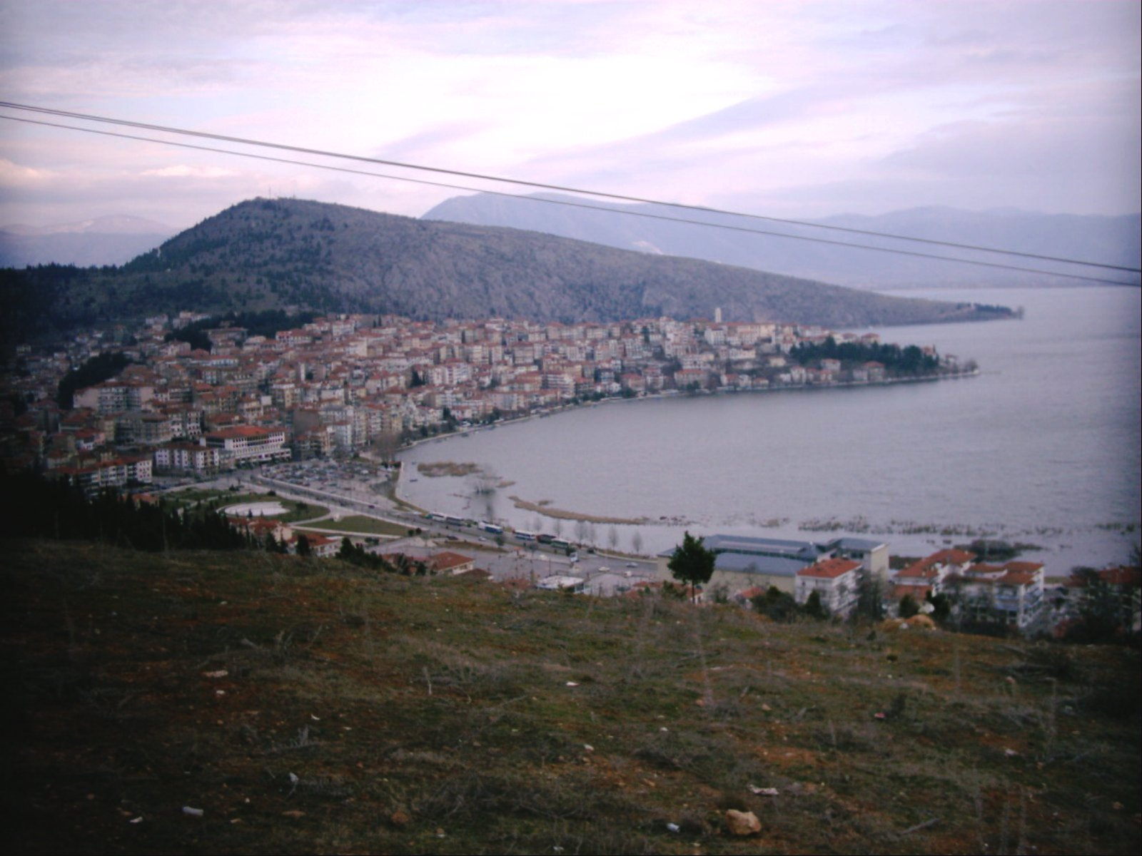 Kastoria and Lake Orestiada